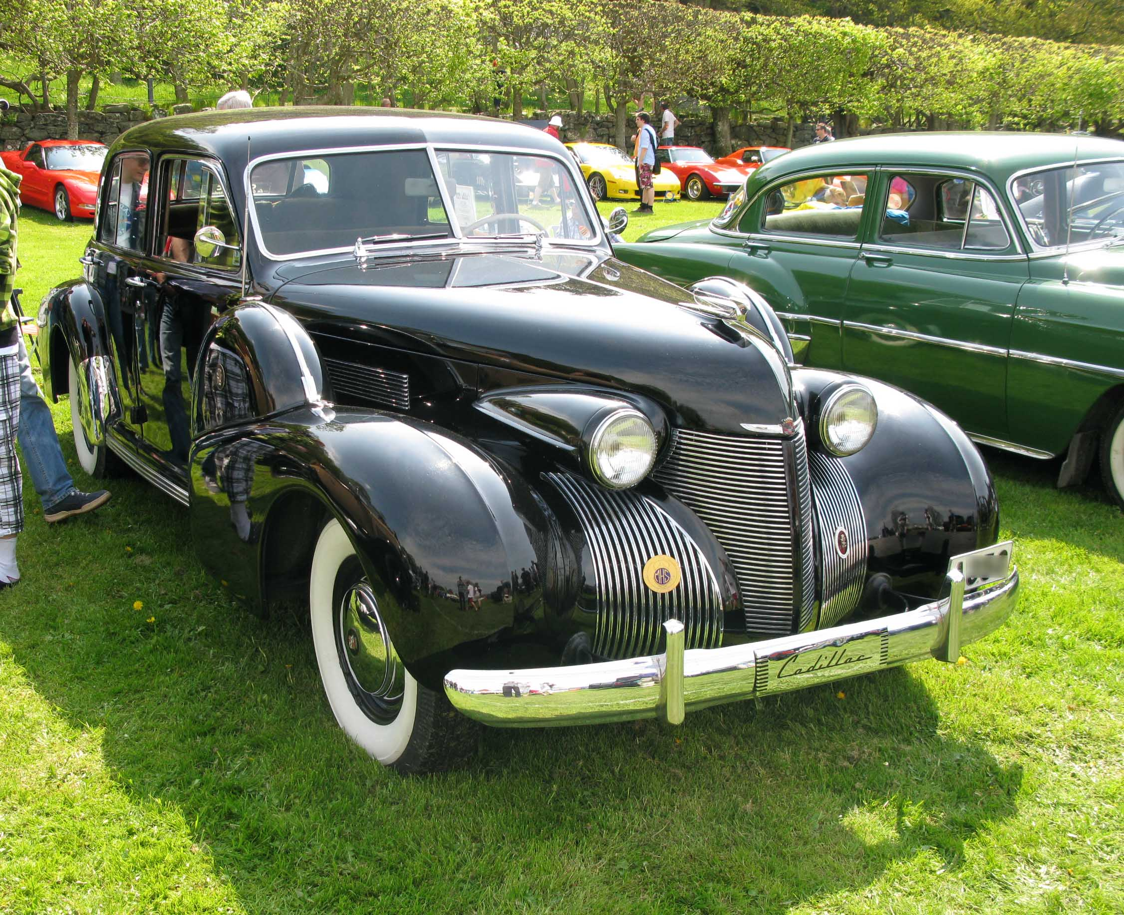 1939 Cadillac Series 60 Special.Event: Tjolöholm Classic Motor 2012.